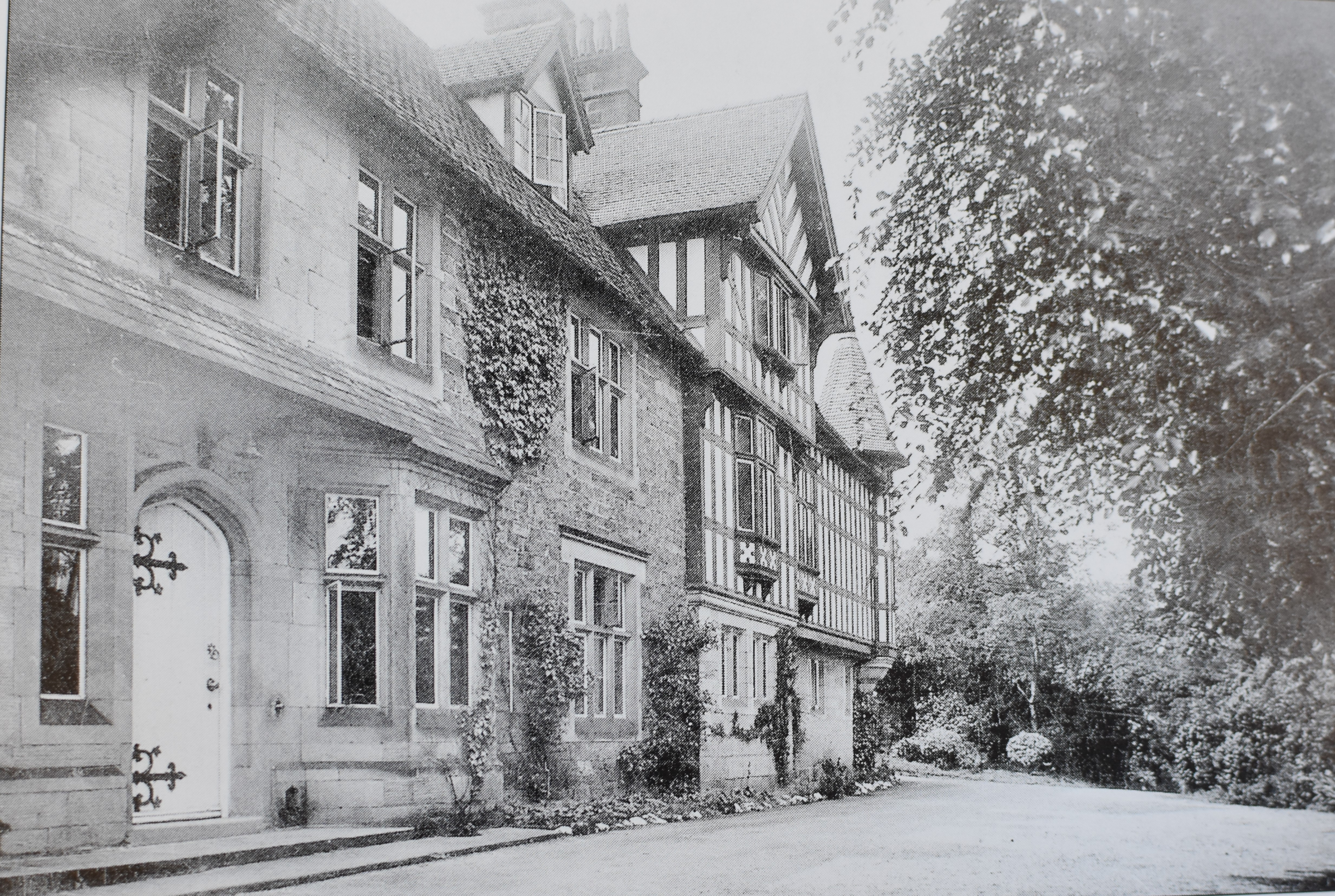 Oakhurst House from a postcard circa 1900